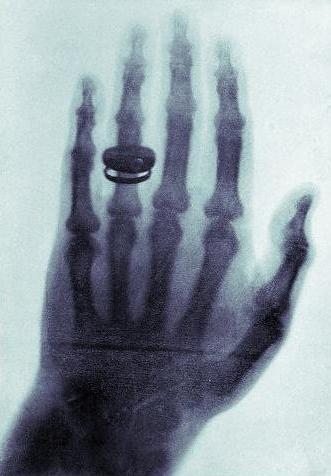 An early X-ray picture (radiograph) by Wilhelm Röntgen (1845–1923) of Albert von Kölliker's left hand (hence the wedding ring).